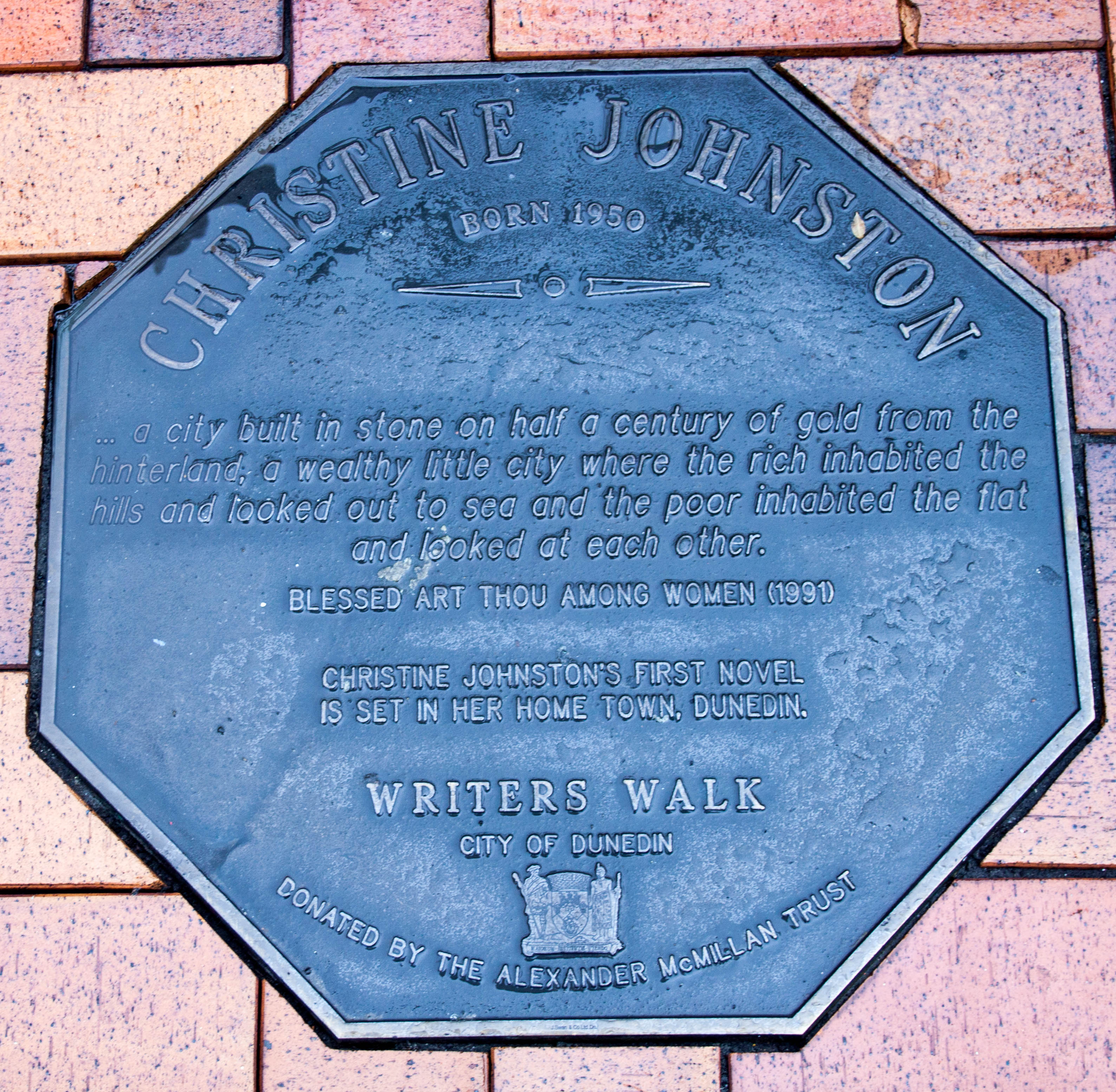 Plaque dedicated to Christine Johnston in Dunedin, on the Writers' Walk on the Octagon